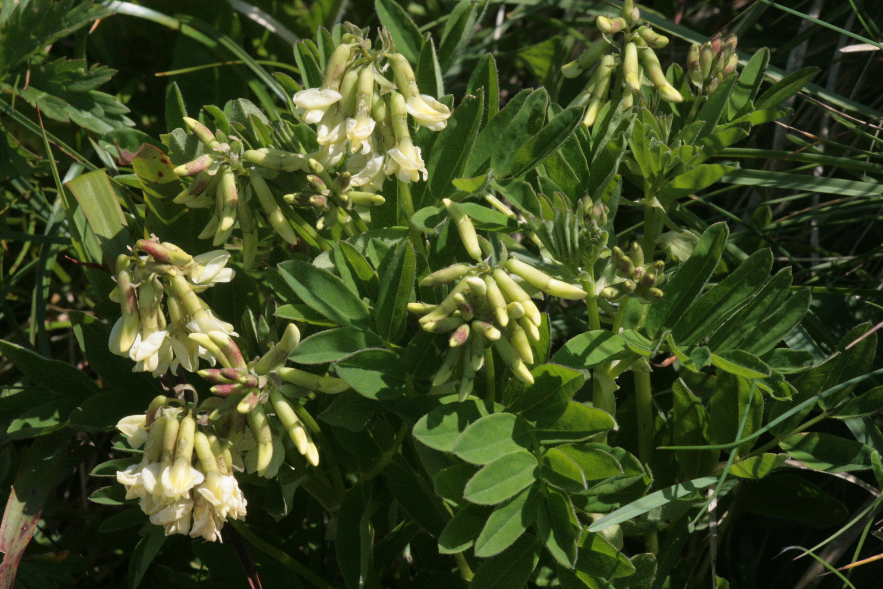 Astragalus frigidus